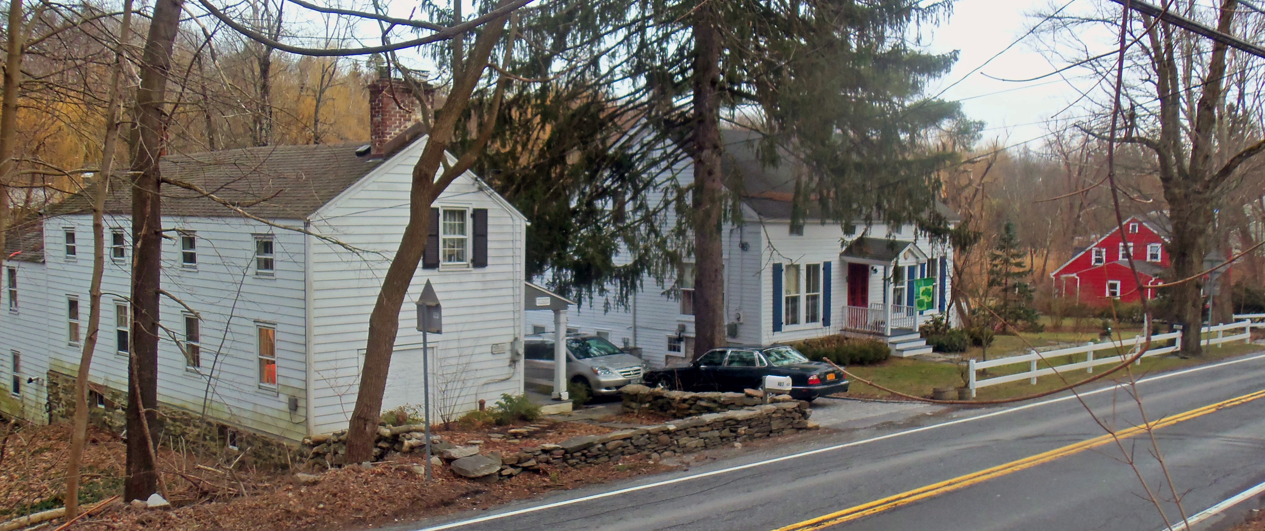 Buildings from the early 19th-century Samuel Allen Farm, contributing properties to the Old Chappaqua Historic District, along Quaker Road {NY 120) in the town of New Castle, NY, USA